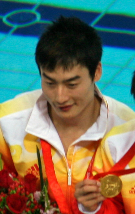 Diving at the 2008 Summer Olympics – Men's 3 metre springboard